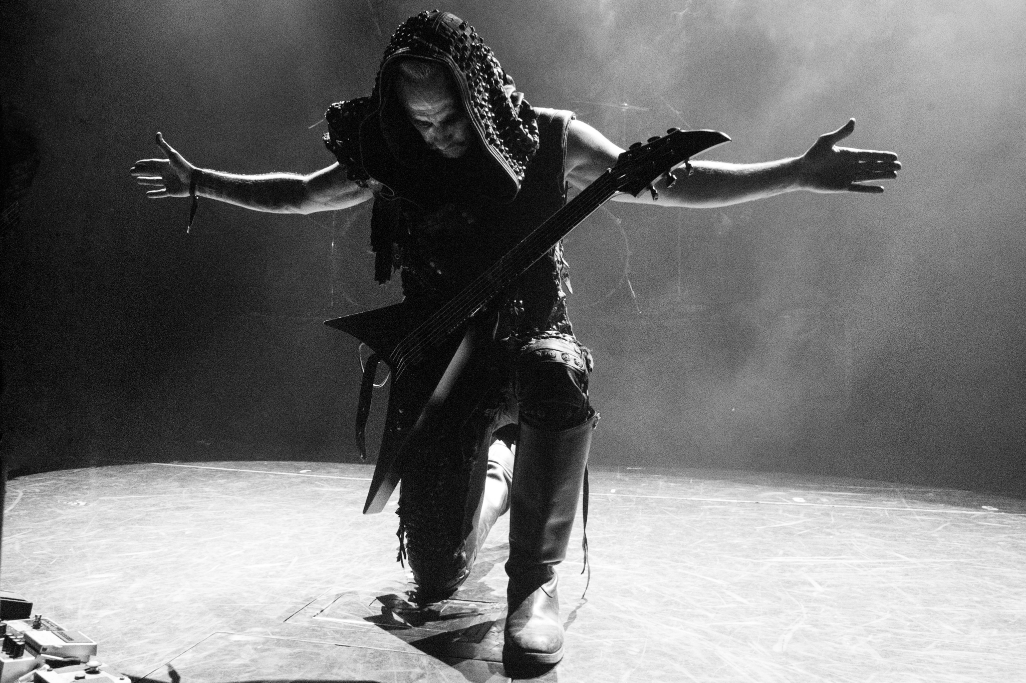 Behemoth performing at 70.000 tons of metal, january 2015